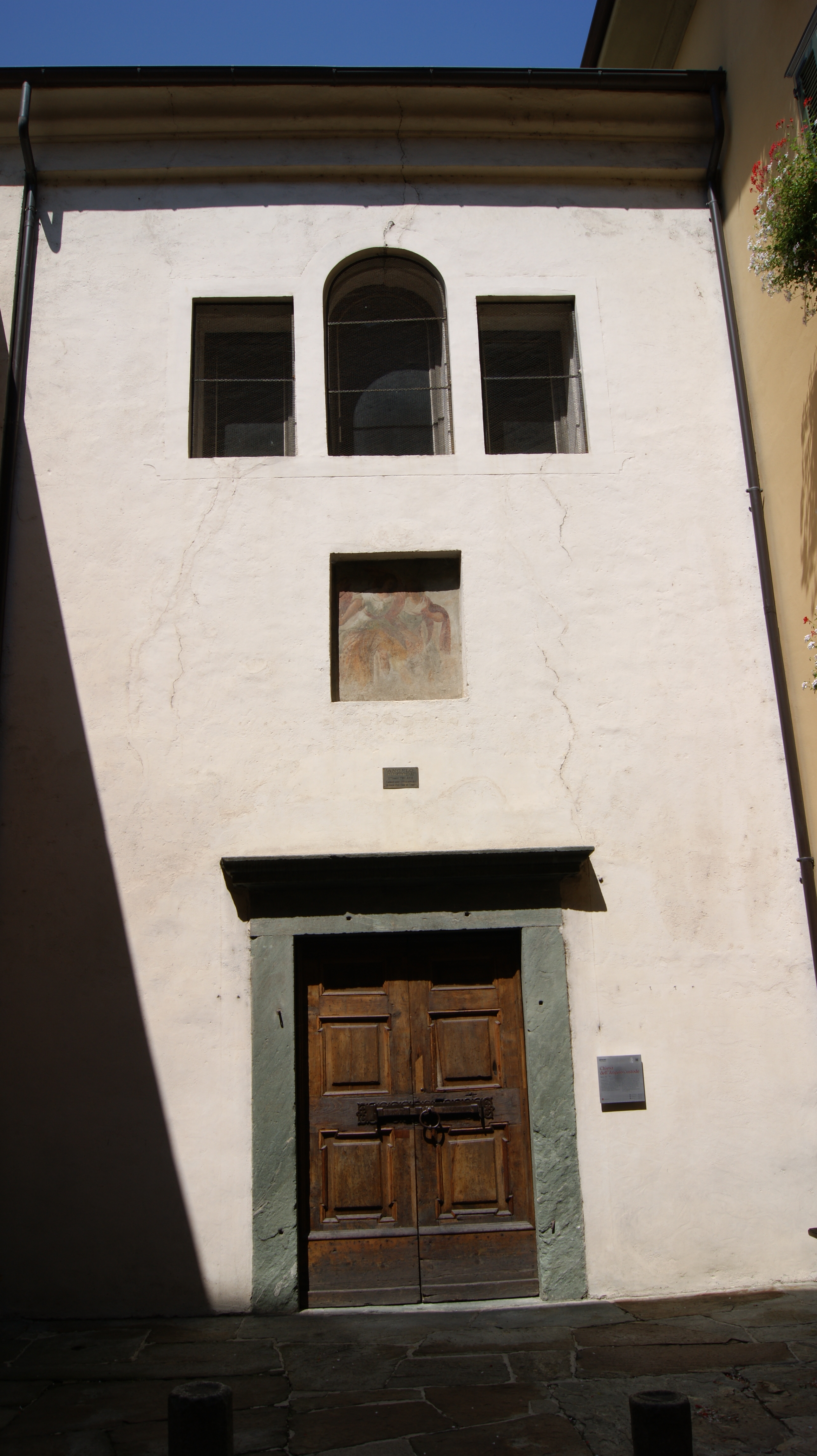 Old town of Tirano (Sondrio), Italy. Chiesa dell Angelo Custode.